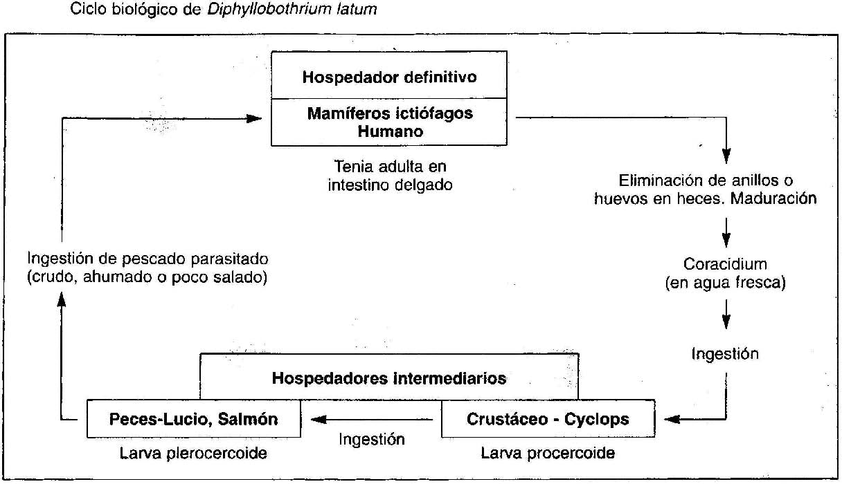 Diphyllobothrium latum life cycle